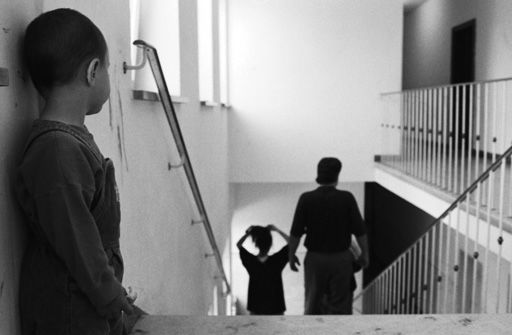 Asylum seekers in Munich (Germany)